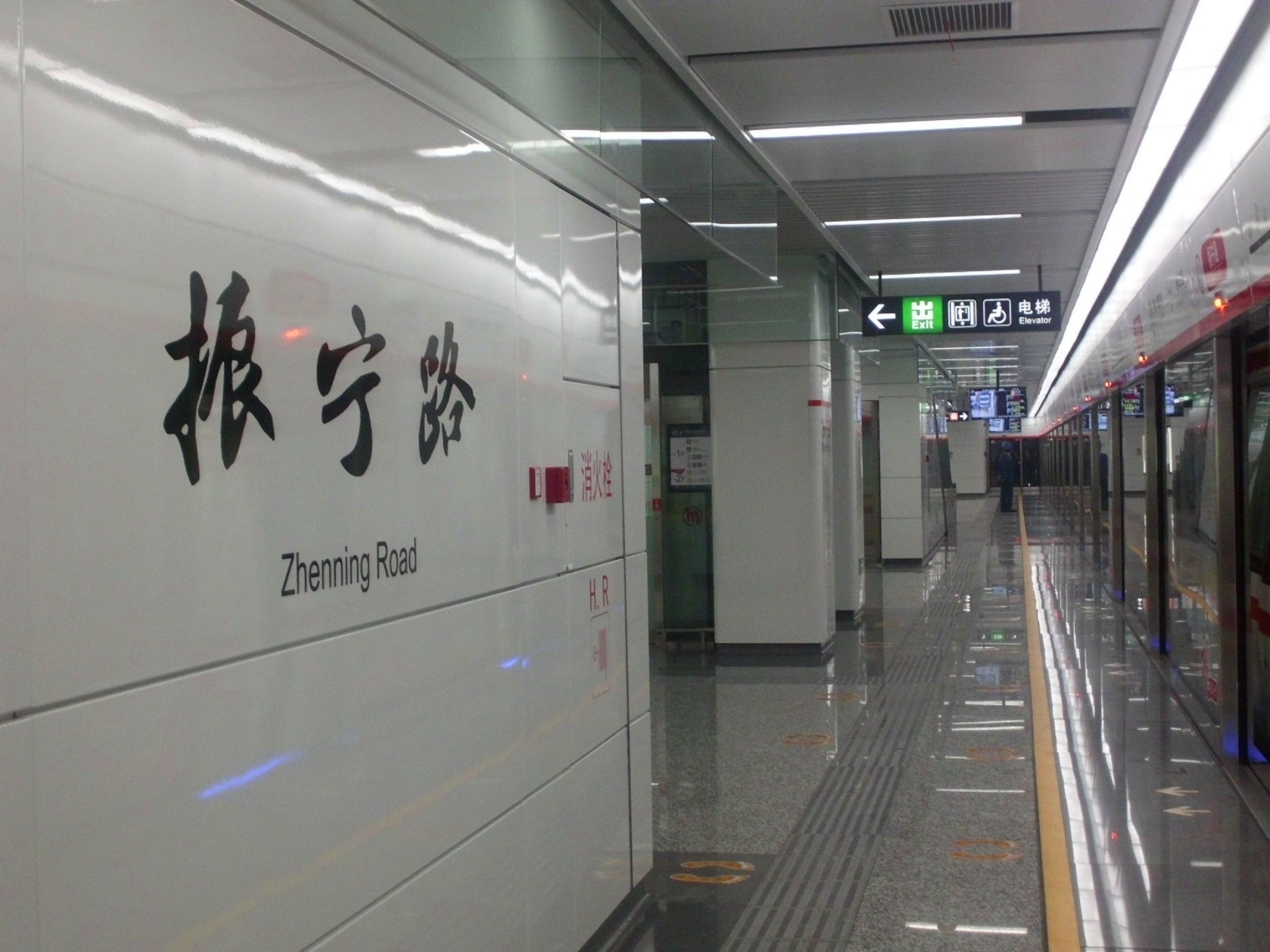 Zhenning Road Station